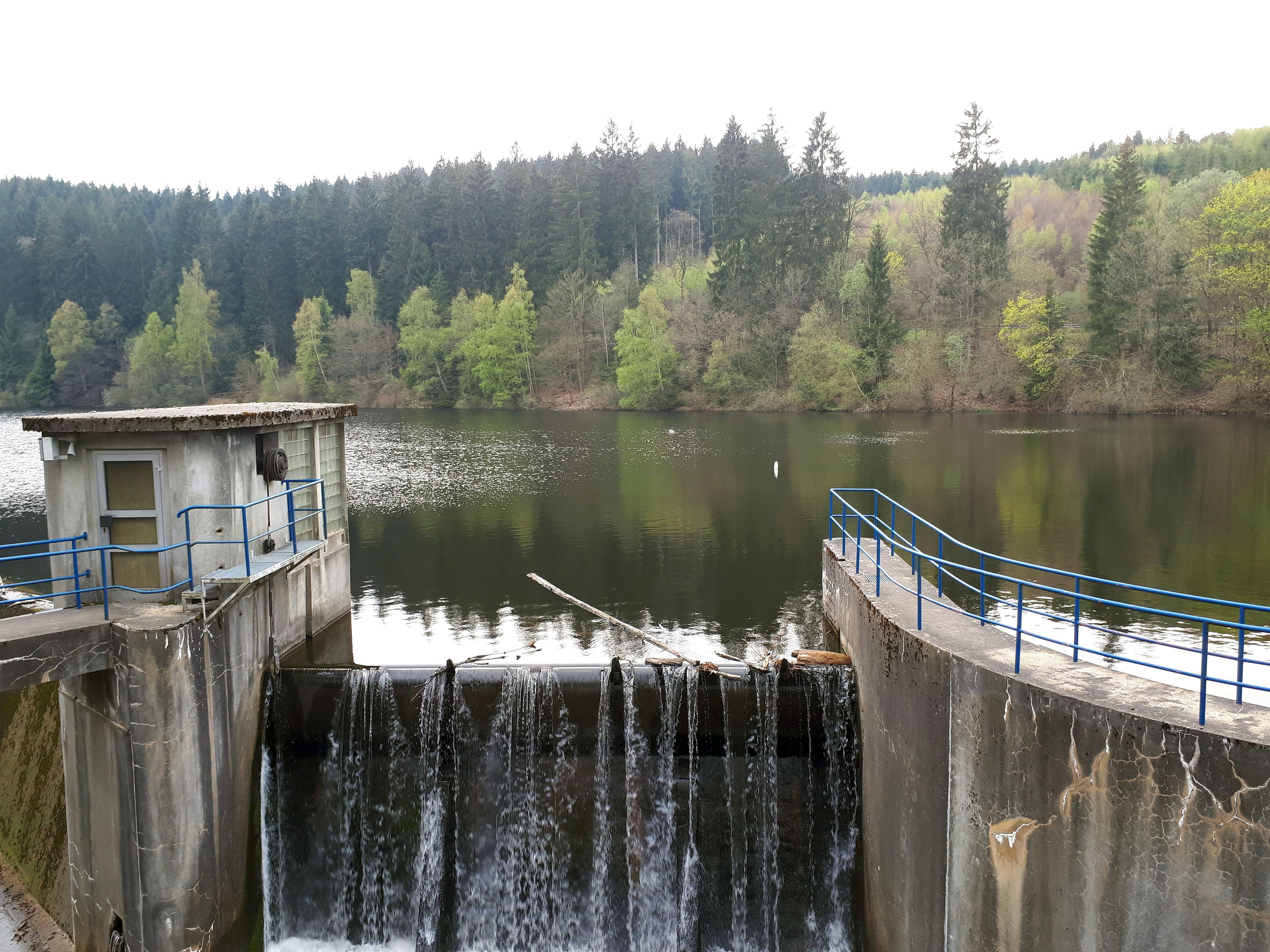 Perlenbachtalsperre, a reservoir near Monschau